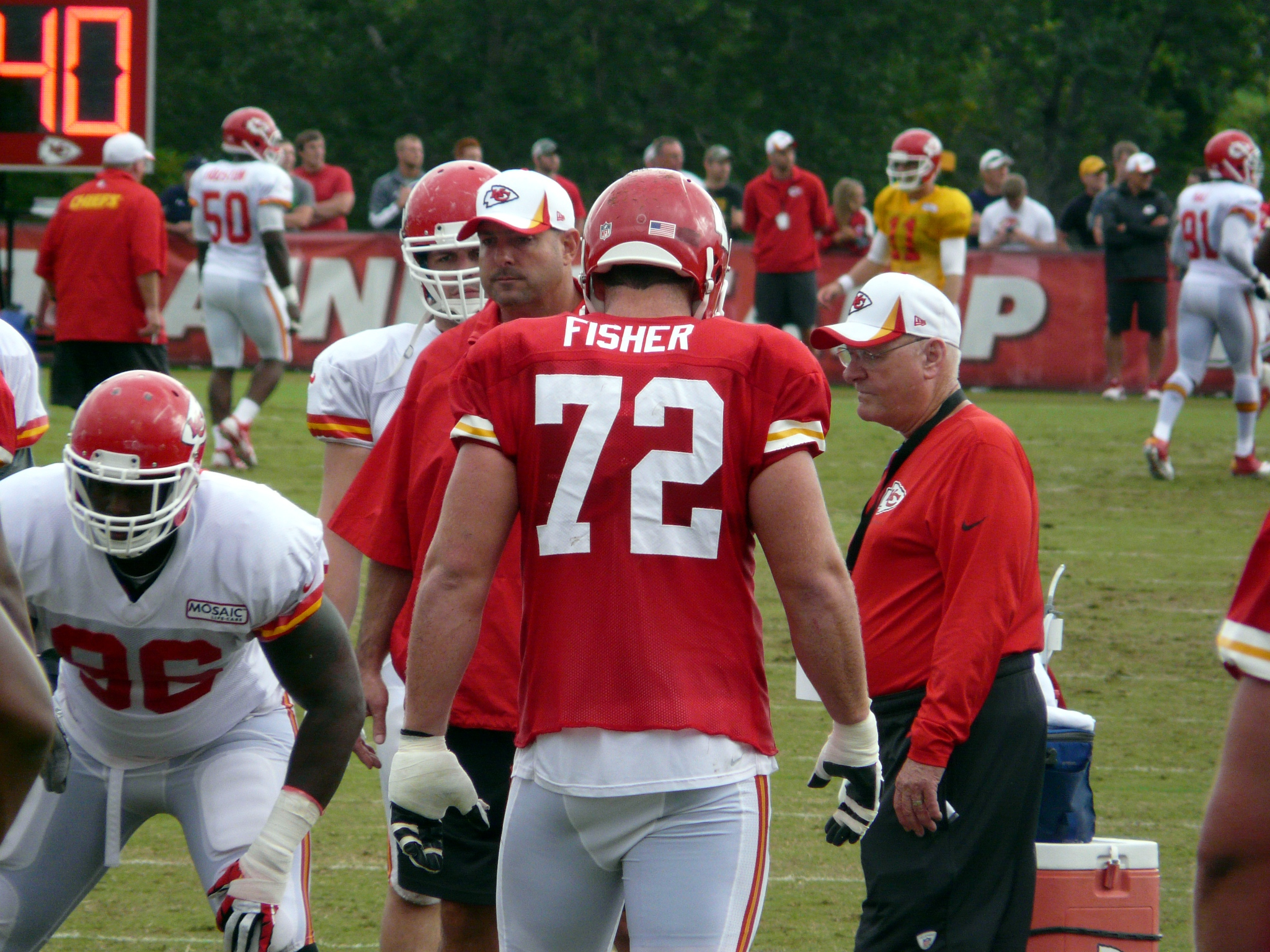 Eric Fisher during 2013 training camp